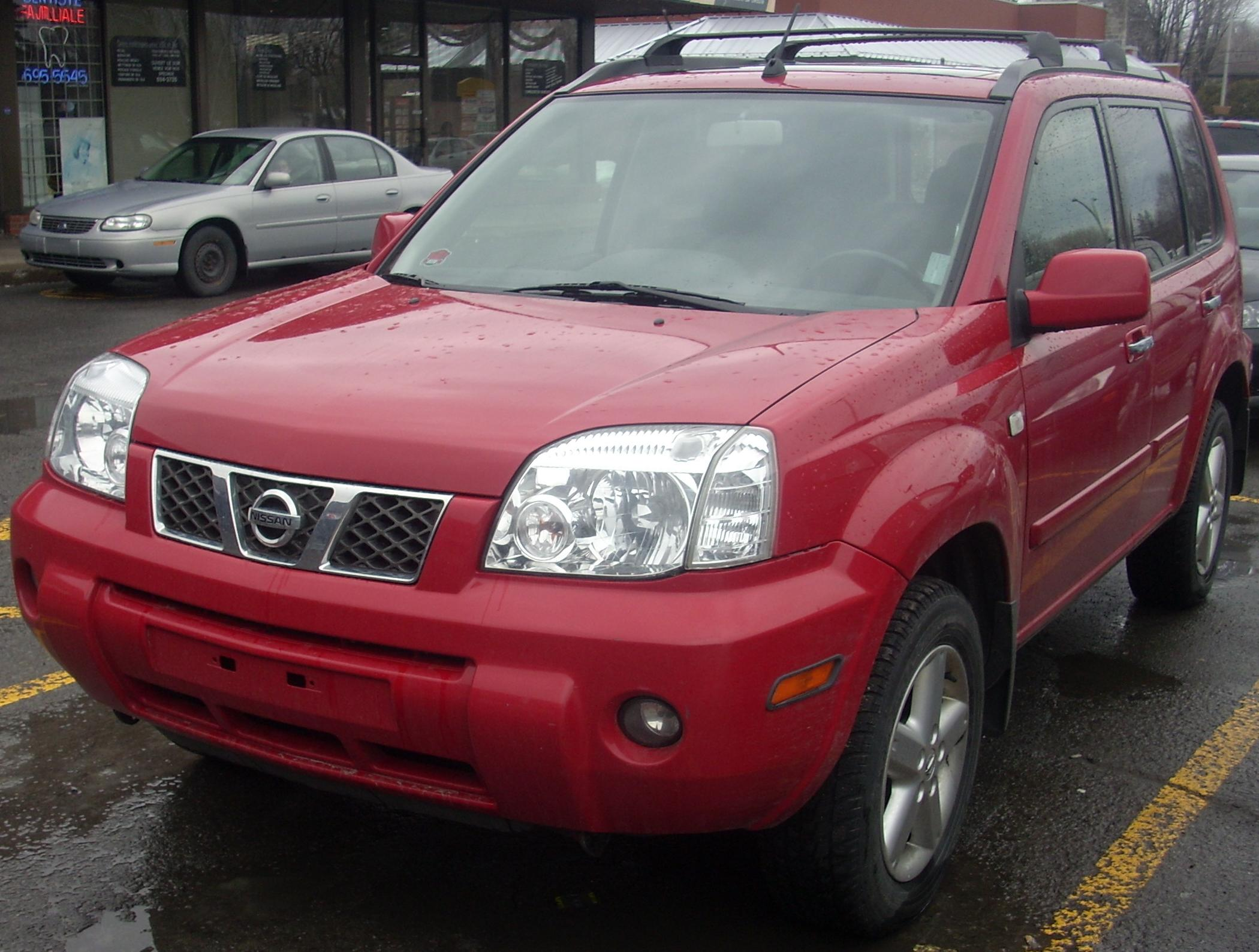 2005-2006 Nissan X-Trail photographed in Montreal, Quebec, Canada.